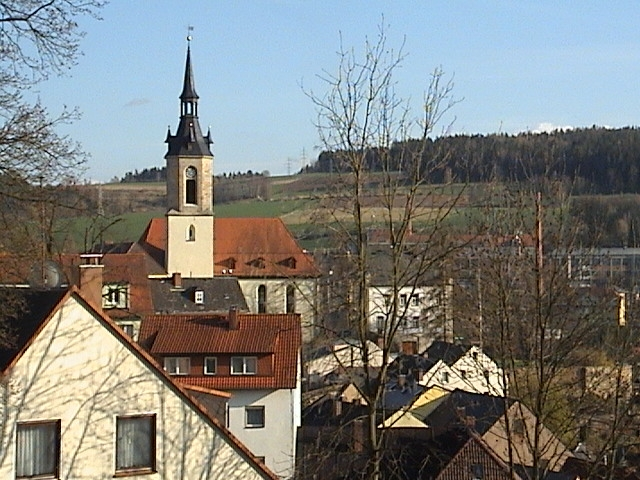 View to Arzberg and its protestant church